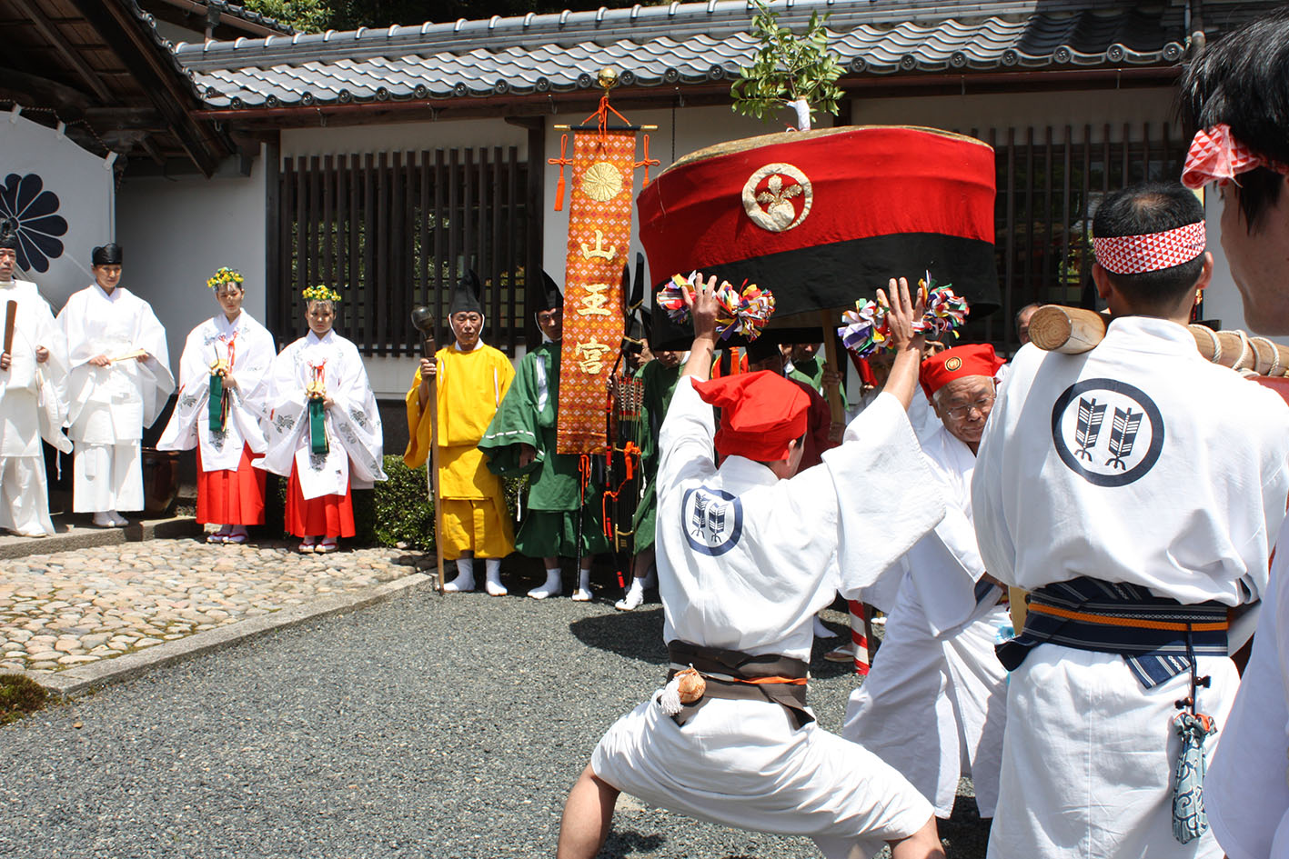 SannouSai Mikoshi in Miyazu Sannogu-Hiyishi shrine,Miyazu,Kyoto,Japan.